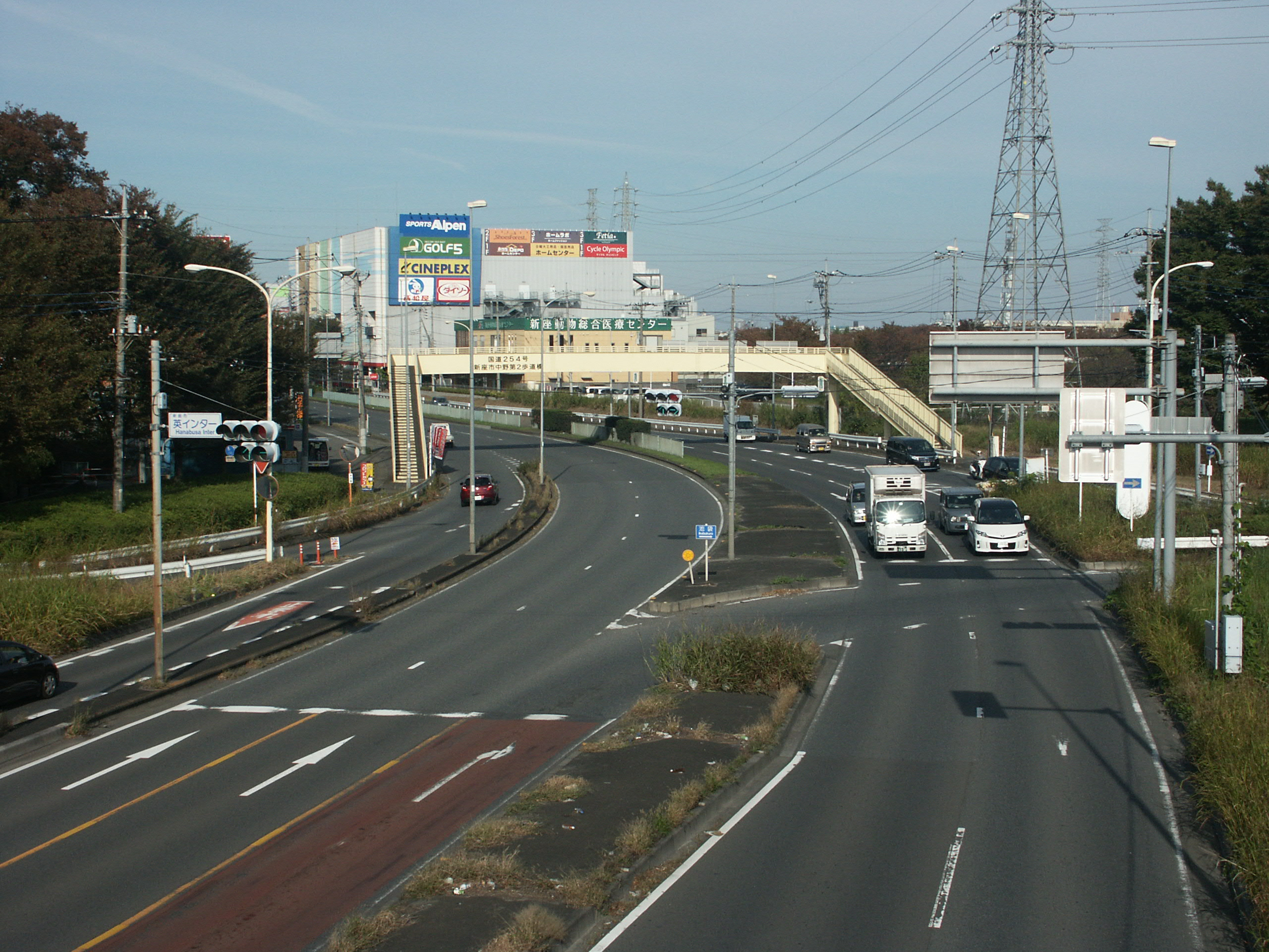 Hanabusa Inter Intersection on the Japanese National Routes 254 and 463